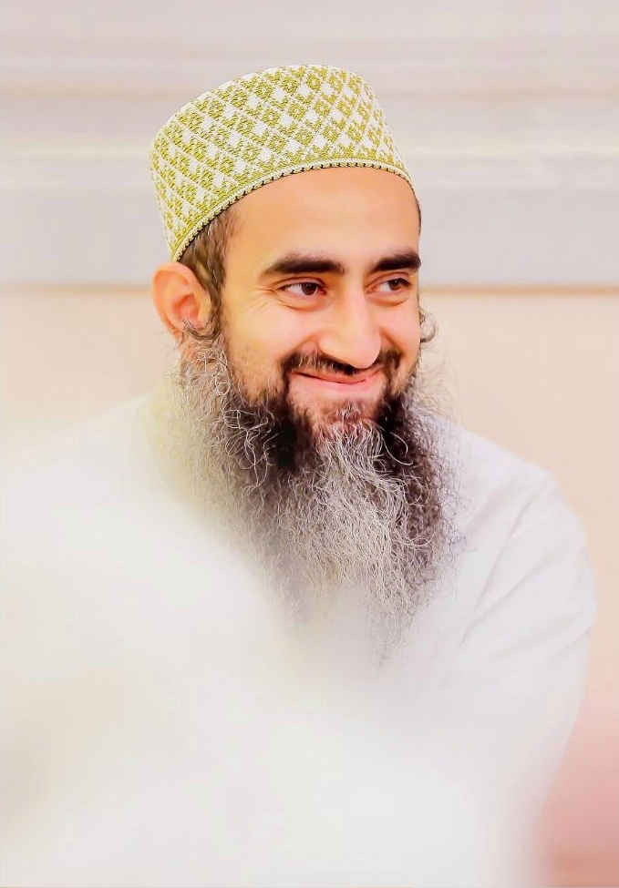 Shazada Husain Bhaisaheb Burhanuddin at a private event in Surat.